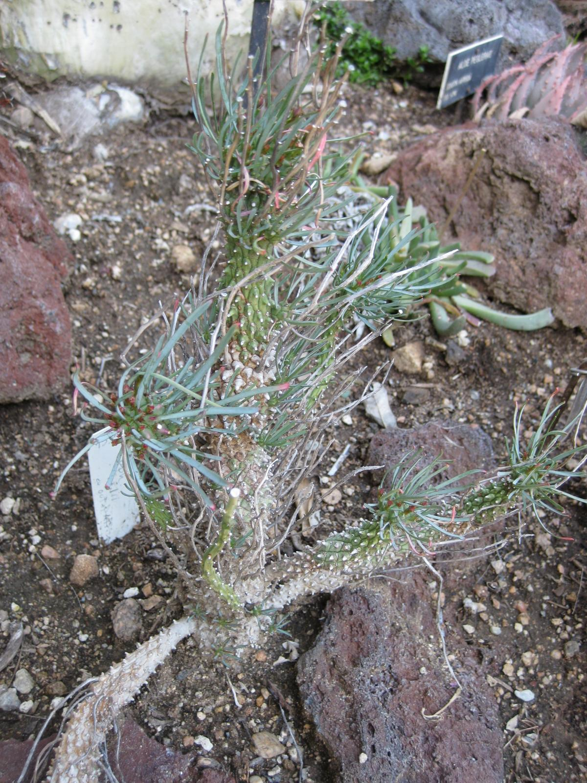 Photographed at Huntington Gardens (Los Angeles) in March